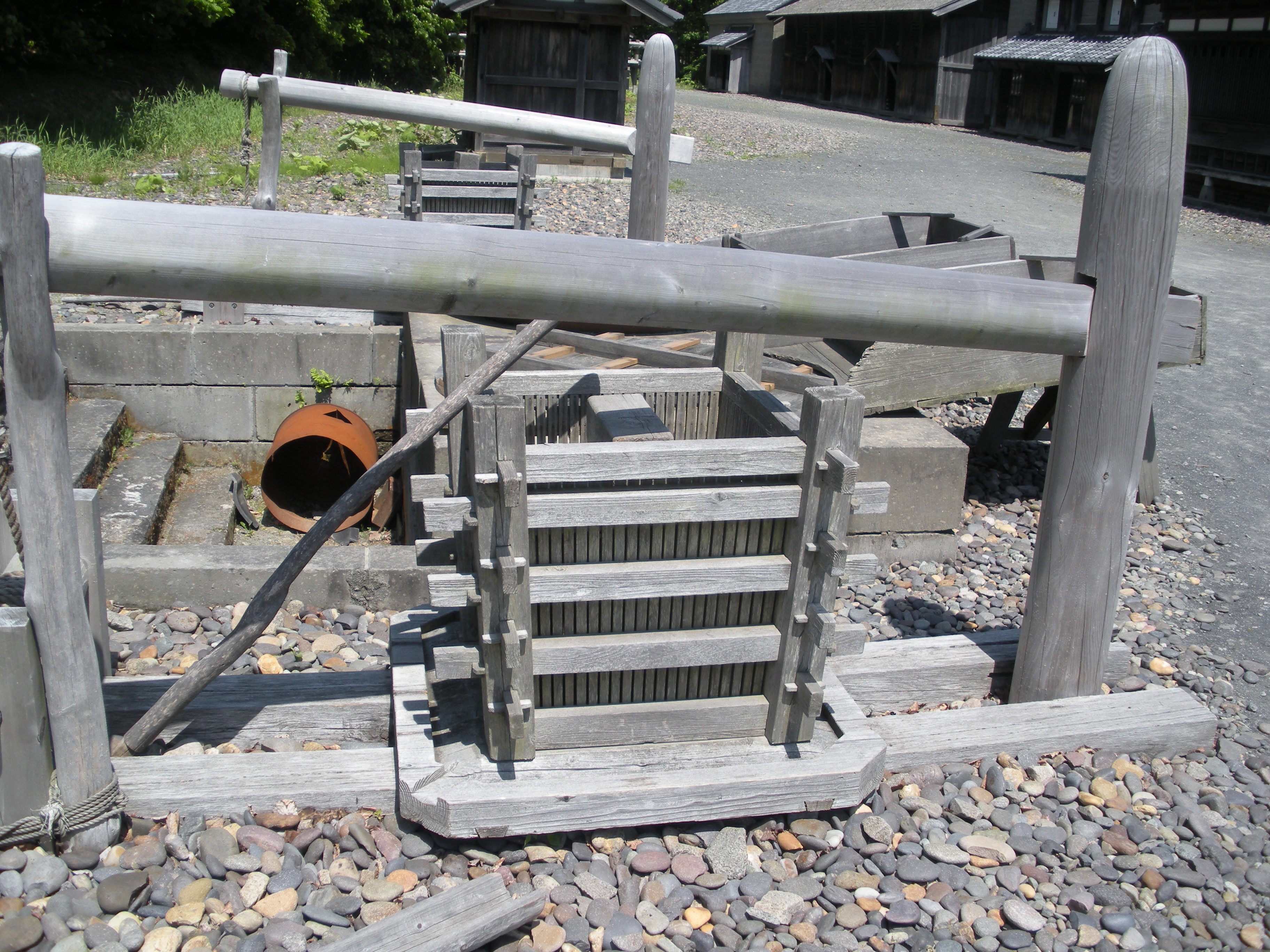 Japanese Pacific herring Oil production equipment